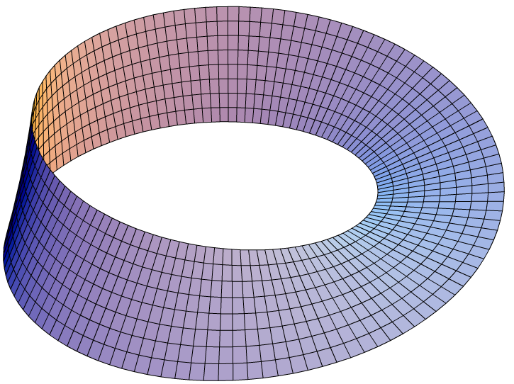 A moebius strip parametrized by the following equations: , where n=1. This plot is for display purposes by itself. If you are lookig for the image that is part of the sequence from n=0 to 1, see below for the other version, along with a thumbnail version with less mesh lines.